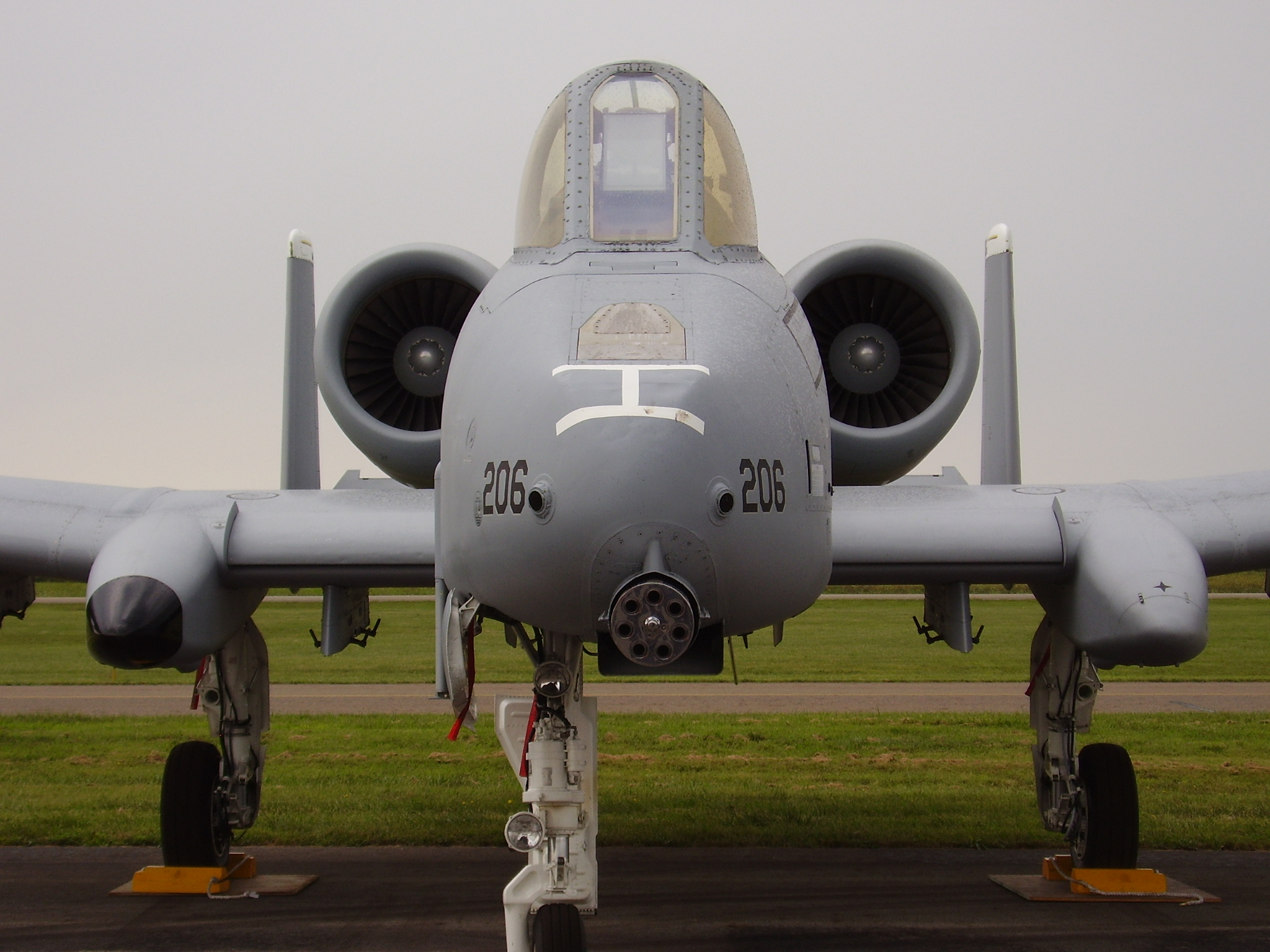 Front view of an A-10 Thunderbolt II (Warthog) showcasing the 30mm forward cannon and offset front landing gear.